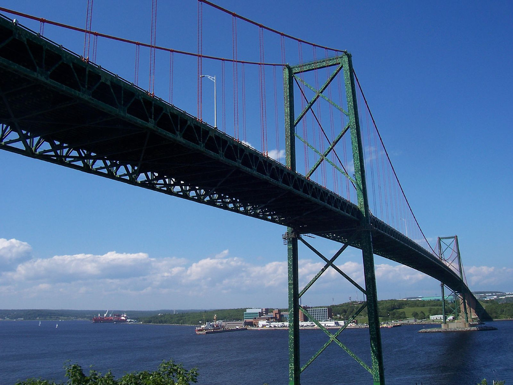 The A. Murray MacKay Bridge links the Halifax Peninsula with Dartmouth, Nova Scotia